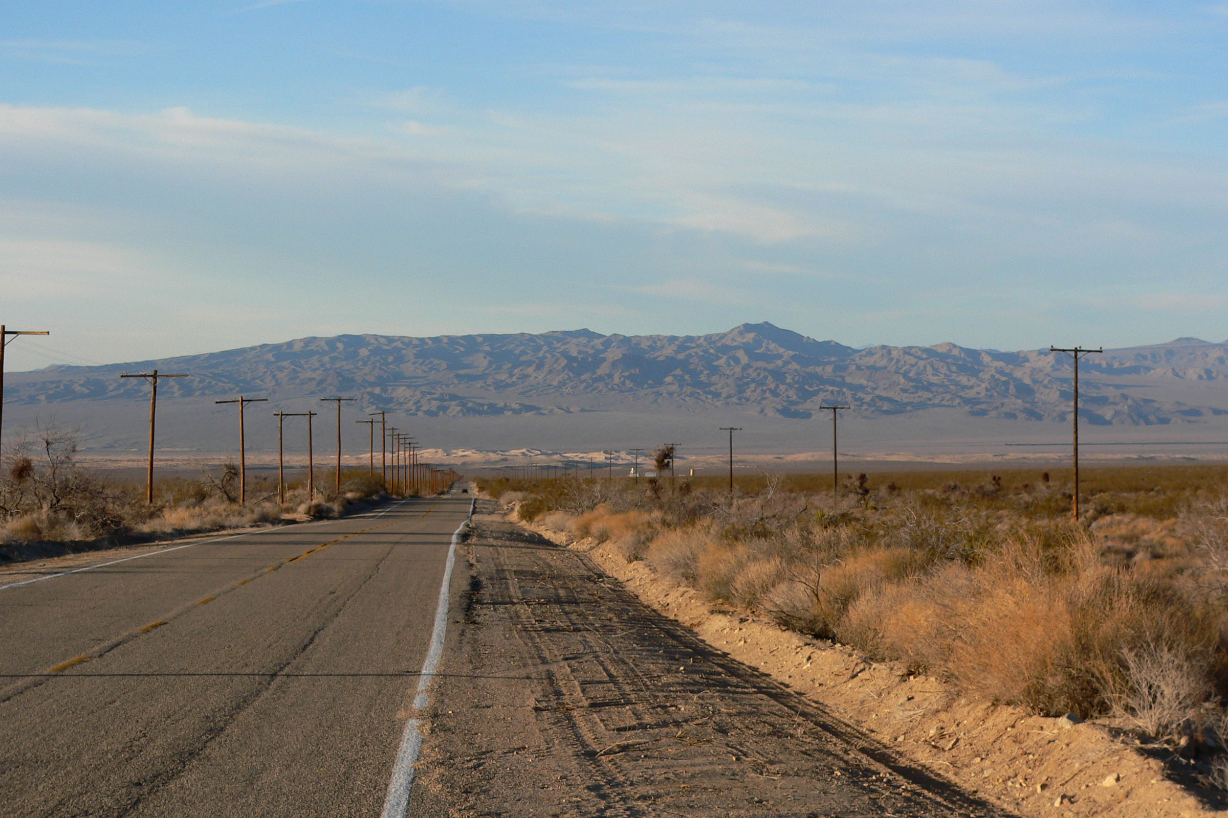 Kelso Mountains from the south, from Kelbaker Road, Mojave National Preserve, southern California